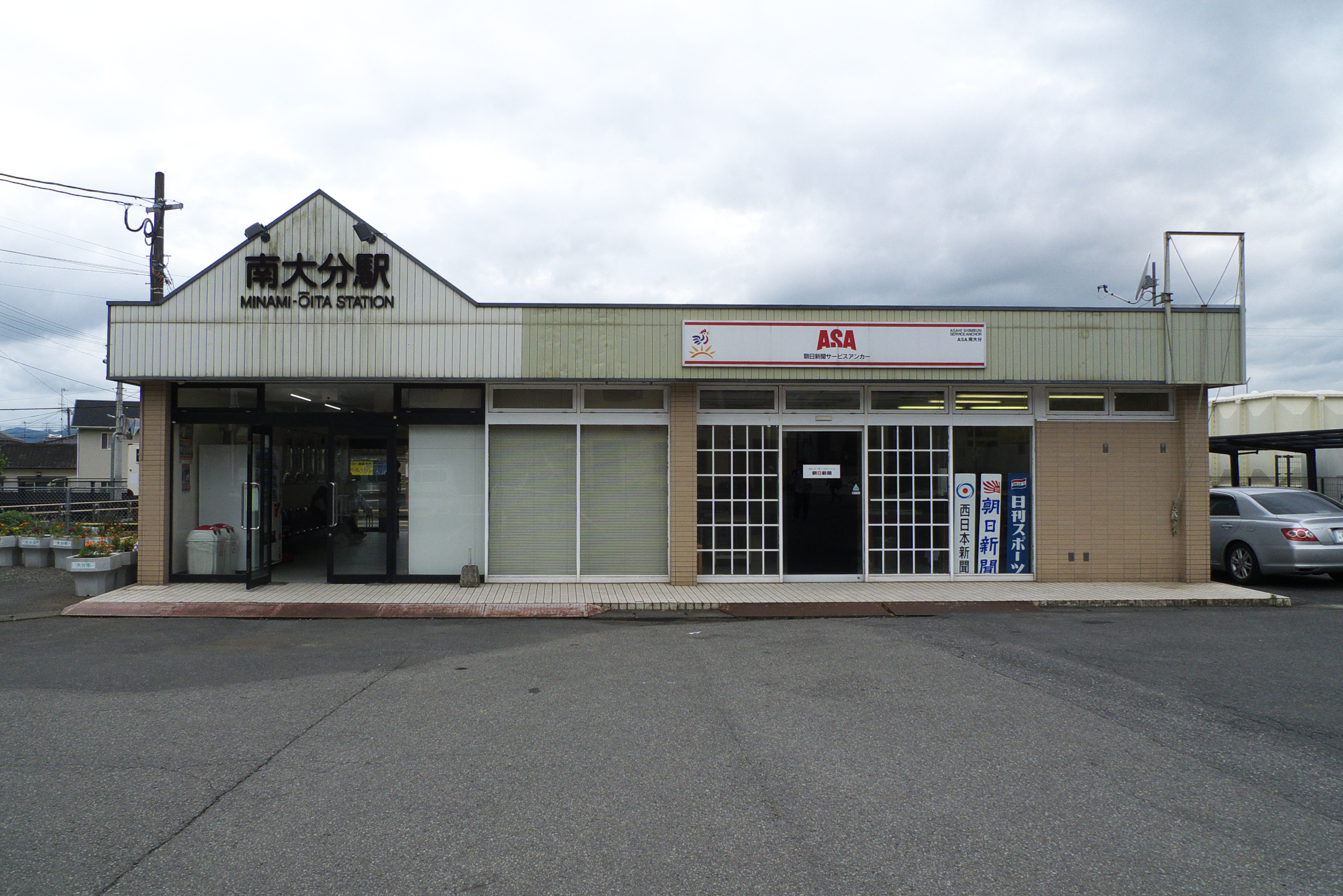 Minami-Oita Station on the Kyushu Railway Company (JR Kyushu) Kyudai Main Line in Oita City, Oita Prefecture, Japan